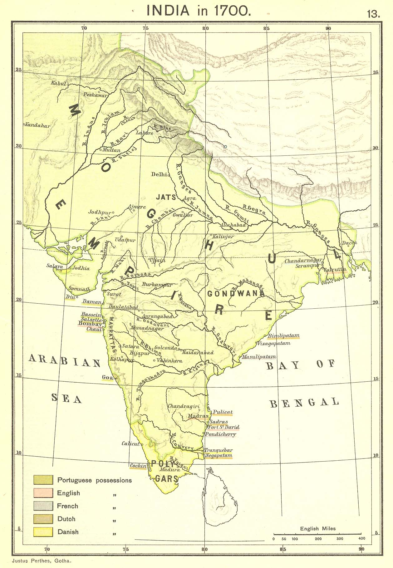 Map of India in 1700